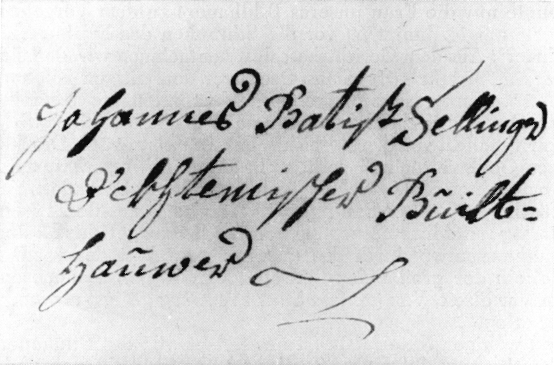 Signature of the German artist Johann Baptist Sellinger (1714-1779) who lived in Freiburg im Breisgau